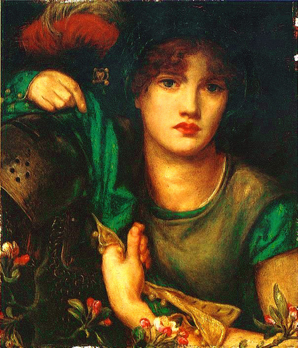 Original PD/ modified by Maris stella